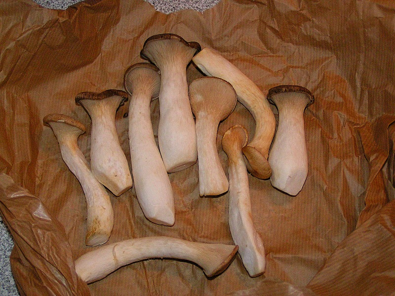 King oyster